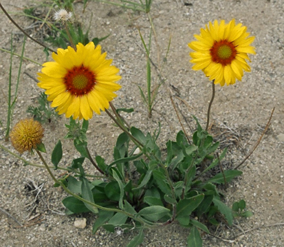 The large, colorful blossoms of gaillardia (Gaillardia aristata) make it not only an attractive wildflower but a popular component of many urban gardens. In fact, the blanketflower, as it is also known, has several commercial cultivars available. This montane and subalpine flower blooms from May through September. Ø2004 D. Windrim Captioned As { }